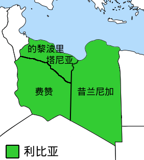 The Ottoman Turks conquered the country in the mid-16th century, and the three States or "Wilayat" of Tripolitania, Cyrenaica and Fezzan (which make up Libya) remained part of their empire with the exception of the virtual autonomy of the Karamanlis. The Karamanlis ruled from 1711 until 1835 mainly in Tripolitania, but had influence in Cyrenaica and Fezzan as well by the mid 18th century. 中文（中国大陆）: 奥斯曼帝国在16世纪中期占领当今的利比亚，设立zh:的黎波里塔尼亚、昔兰尼加和zh:费赞三个zh:维拉特耶。